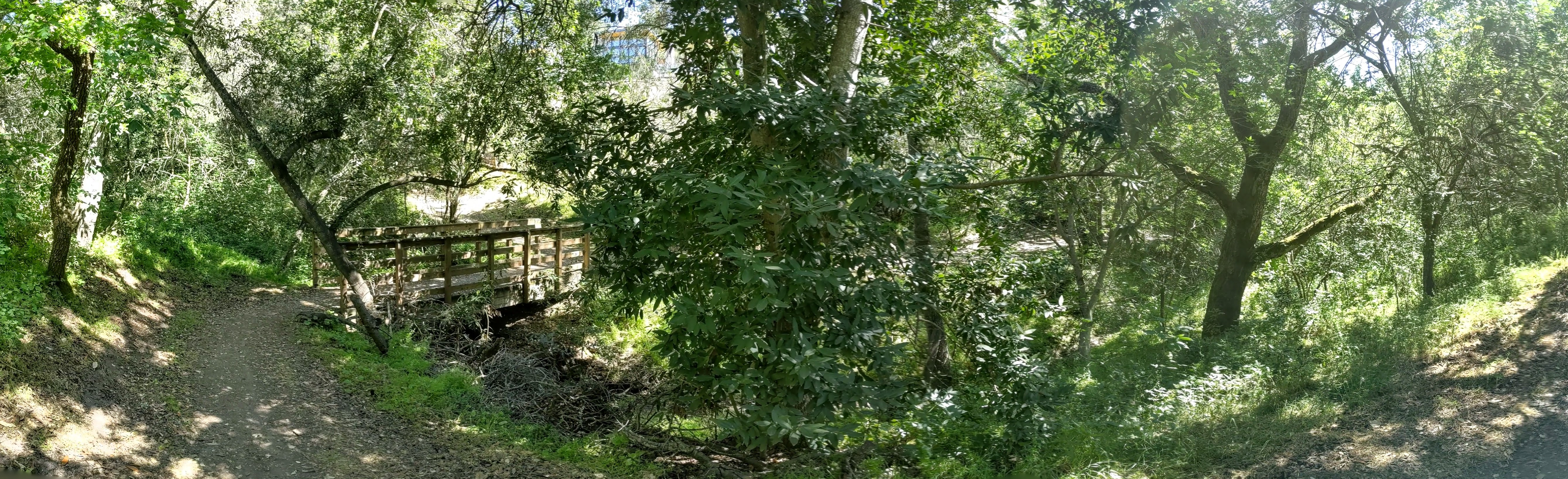 A bridge across a branch of Deer Creek near its source in Los Altos Hills, Santa Clara County, California. This path crosses the other branch behind where the photo was taken, toward Taafe Road. On the other side of this bridge is the Broken House Path.